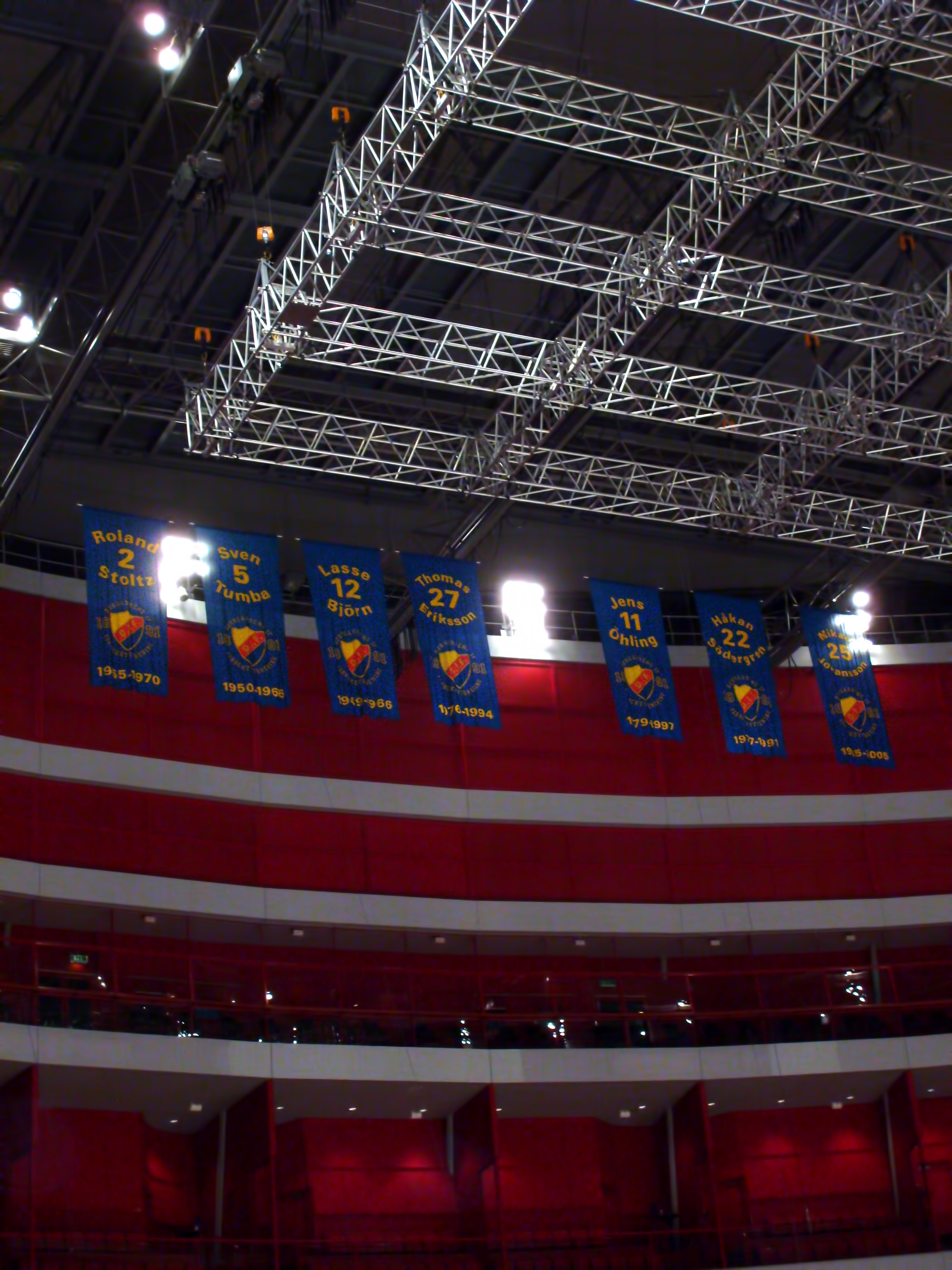 Banderoles with ice hockey players from Djurgården Hockey, Sweden.